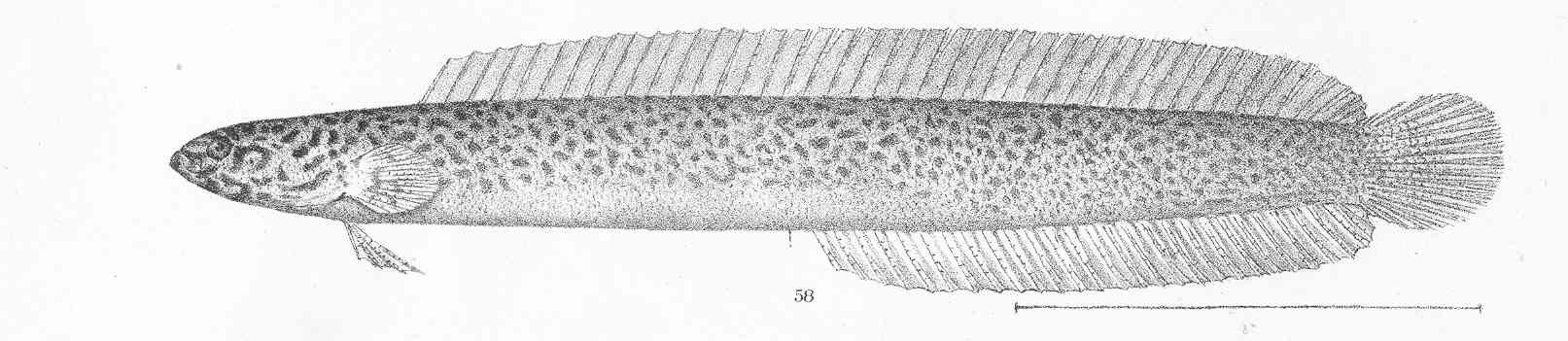 Cerdale ionthas Jordan & Gilbert. Panama Subject: Microdesmidae, Cerdale Tag: Fish